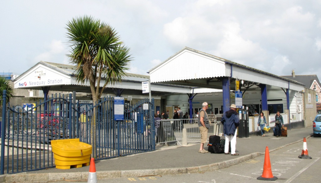 The railway station at Newquay, Cornwall, United Kingdom. The view is looking from the north side of the tracks towards the town.